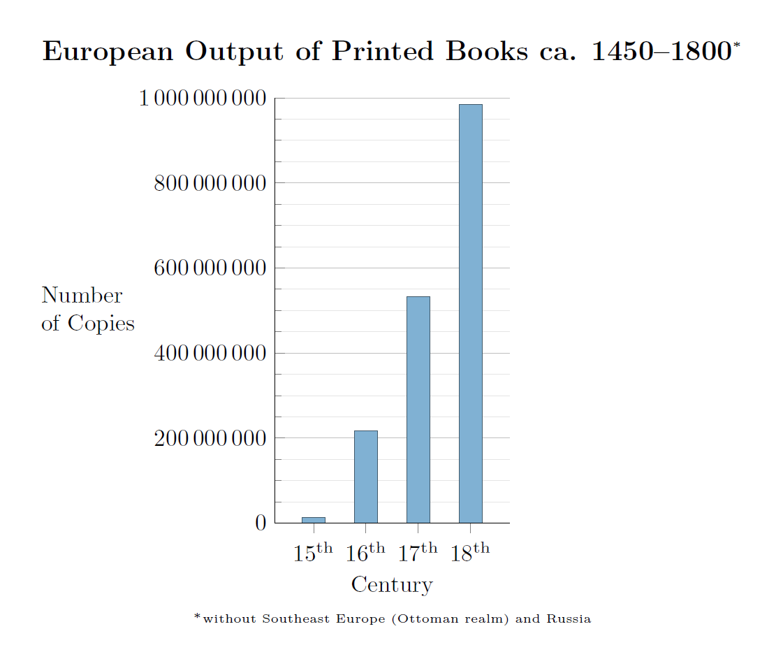 Estimated output of printed books in Europe from ca. 1450 to 1800. A book is defined as printed matter containing more than 49 pages.